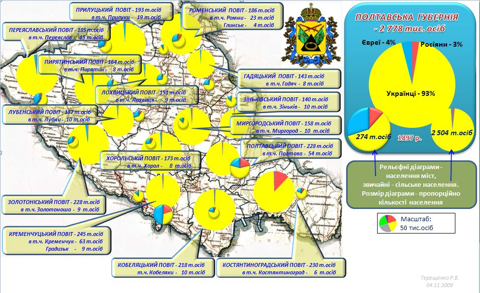 Ethnic groups Poltava province according to Census 1897